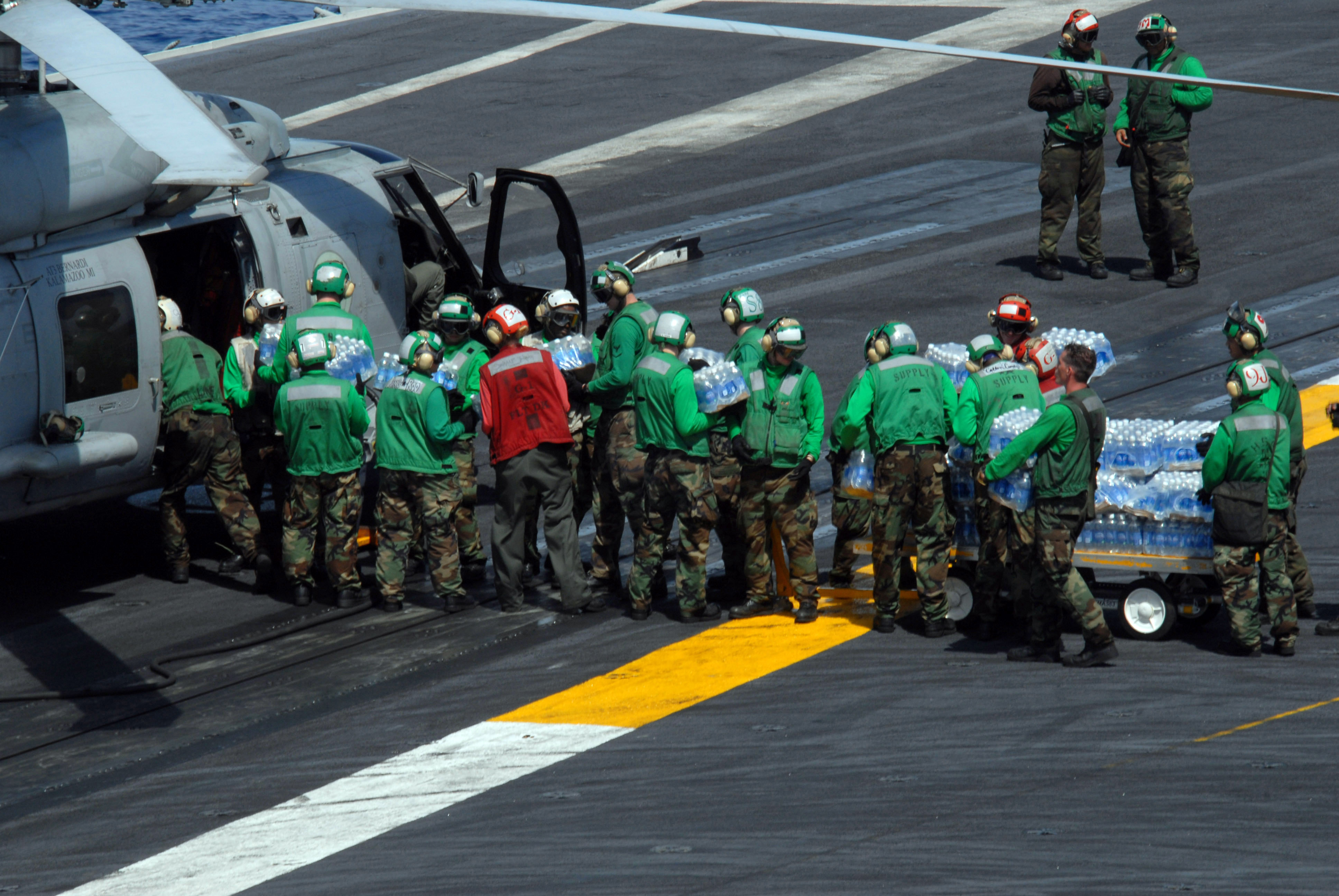 PACIFIC OCEAN (June 25, 2008) Sailors load cases of water bound for the Philippines onto an HH-60H helicopter assigned to the "Black Knights" of Helicopter Anti-Submarine Squadron (HS) 4 on the flight deck of the Nimitz-class aircraft carrier USS Ronald Reagan (CVN 76). Ronald Reagan sent 12,000 bottles of water and 7,500 pounds of Rice to the Philippines supporting disaster relief efforts. The Ronald Reagan Carrier Strike Group is support the government of the Republic of the Philippines to help provide humanitarian assistance and disaster relief to the victims of Typhoon Fengshen. U.S. Navy photo by Mass Communication Specialist 3rd Class Aaron Holt (Released)